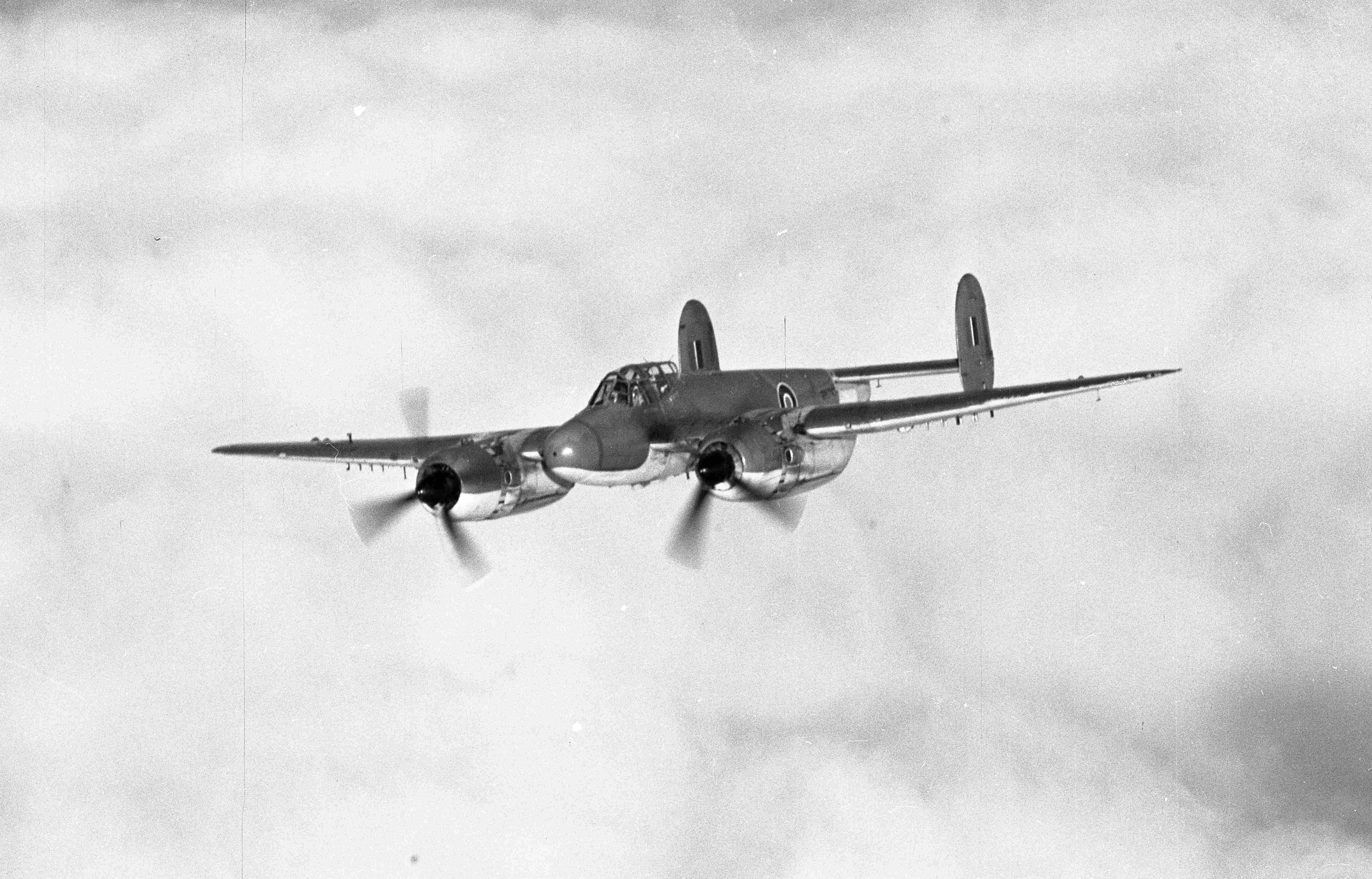 A twin-engined attack aircraft in flight